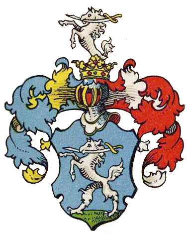 Chernel family crest